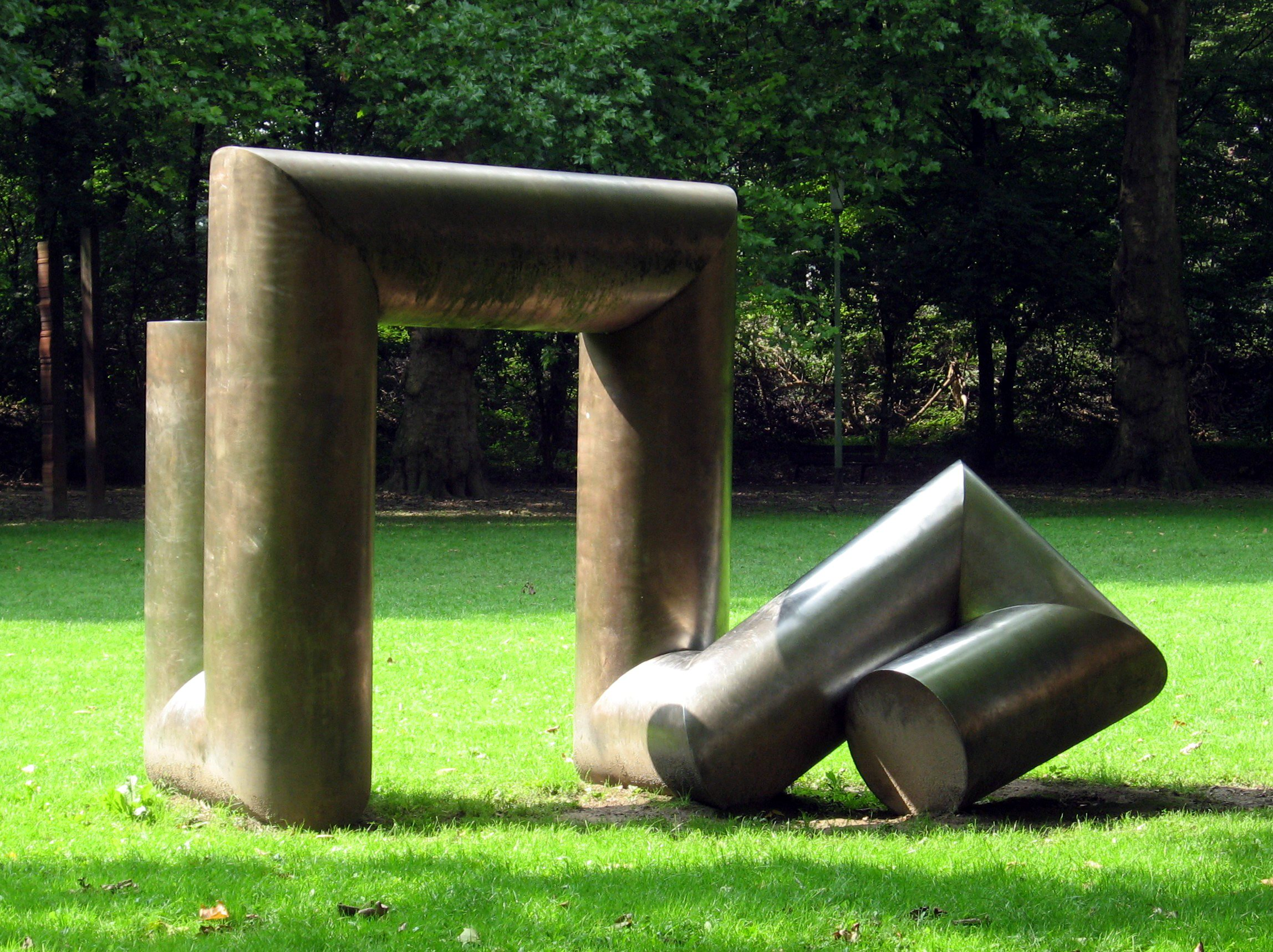 Sculpture "Hannover Tor" by Friedrich Gräsel (de), 1978, stainless steel, 2600 mm x 3400 mm x 2600 mm